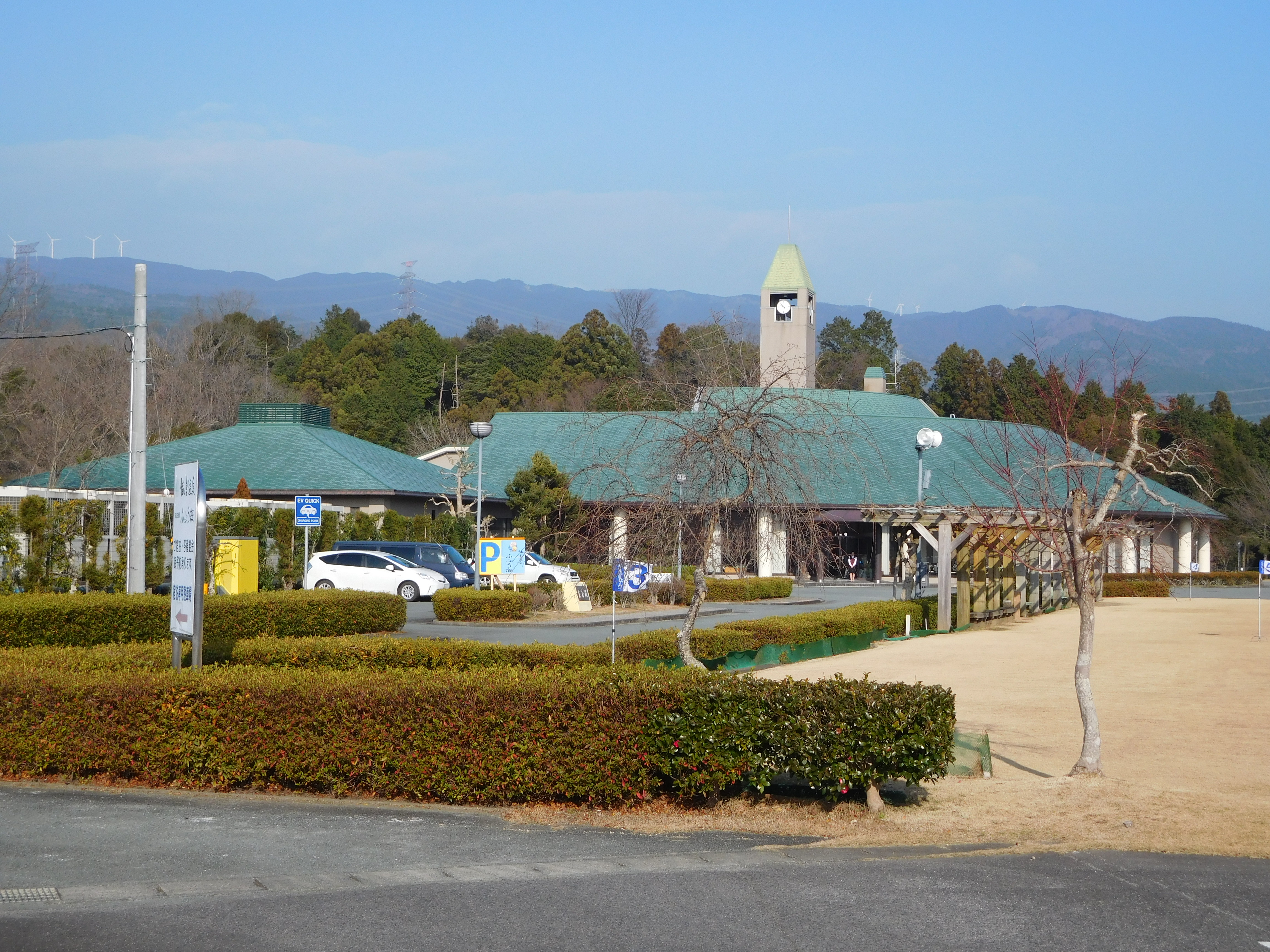 This is the hotel with a spa "Inokura Onsen Fuyōsō" in Tsu, Mie, Japan.